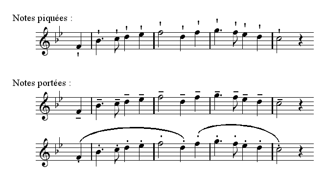 Written musical accents.